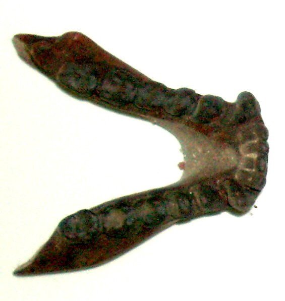 Fossil of Pliopithecus antiquus, an extinct ape